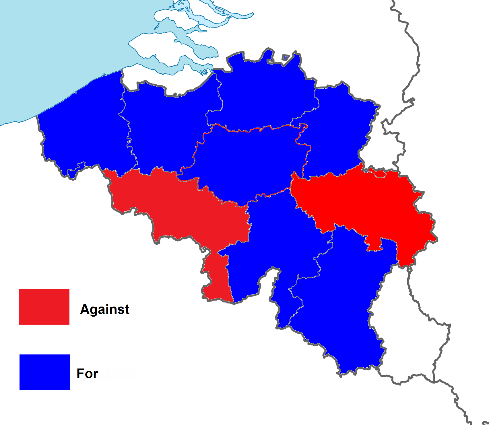 Result of hte Belgian Monarchy referendum 1950, results by province, corrected version of earlier Map, provinces of Namur and Brabant changed to blue according to results (see figures in article)